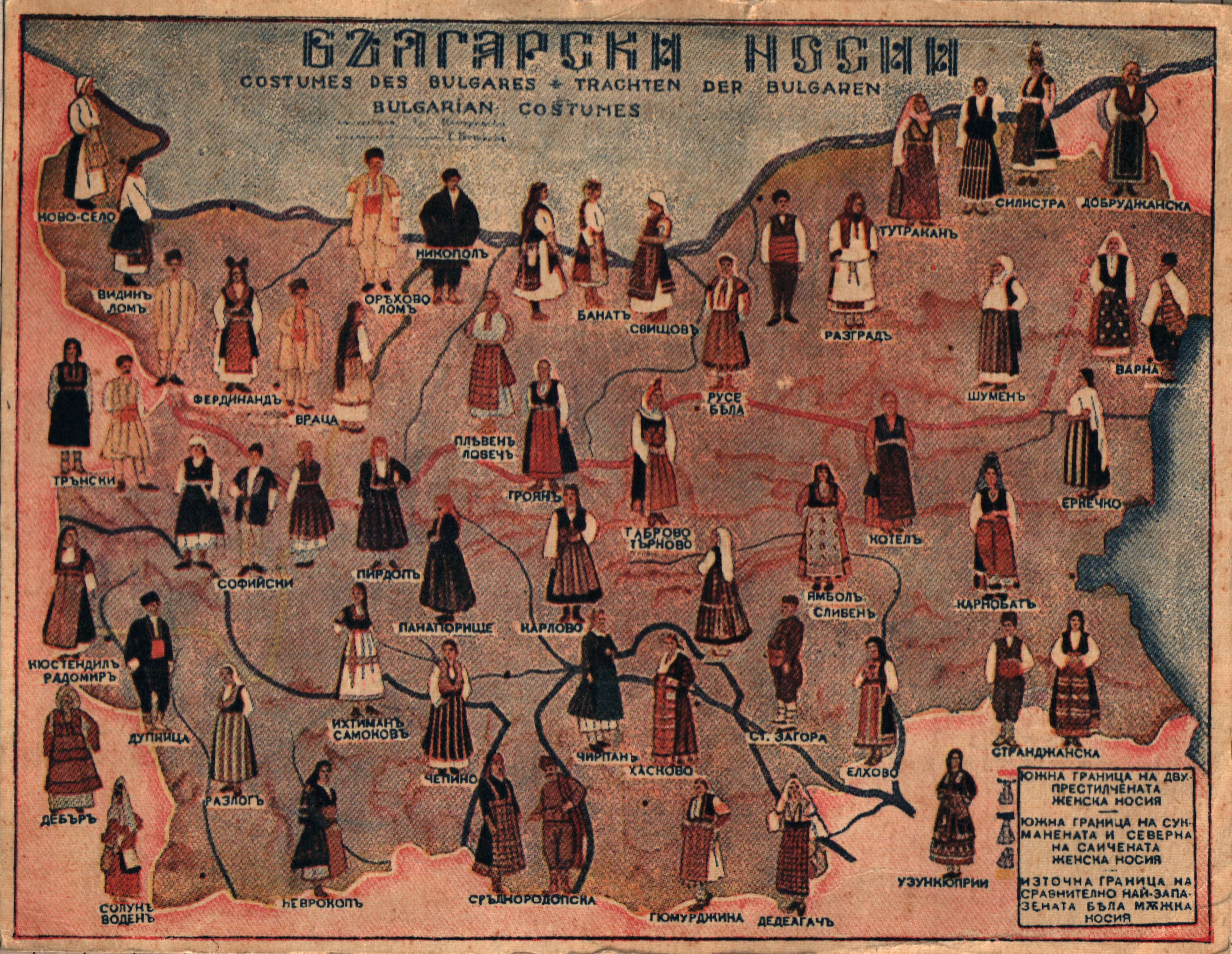 Map of National costume of Bulgaria.